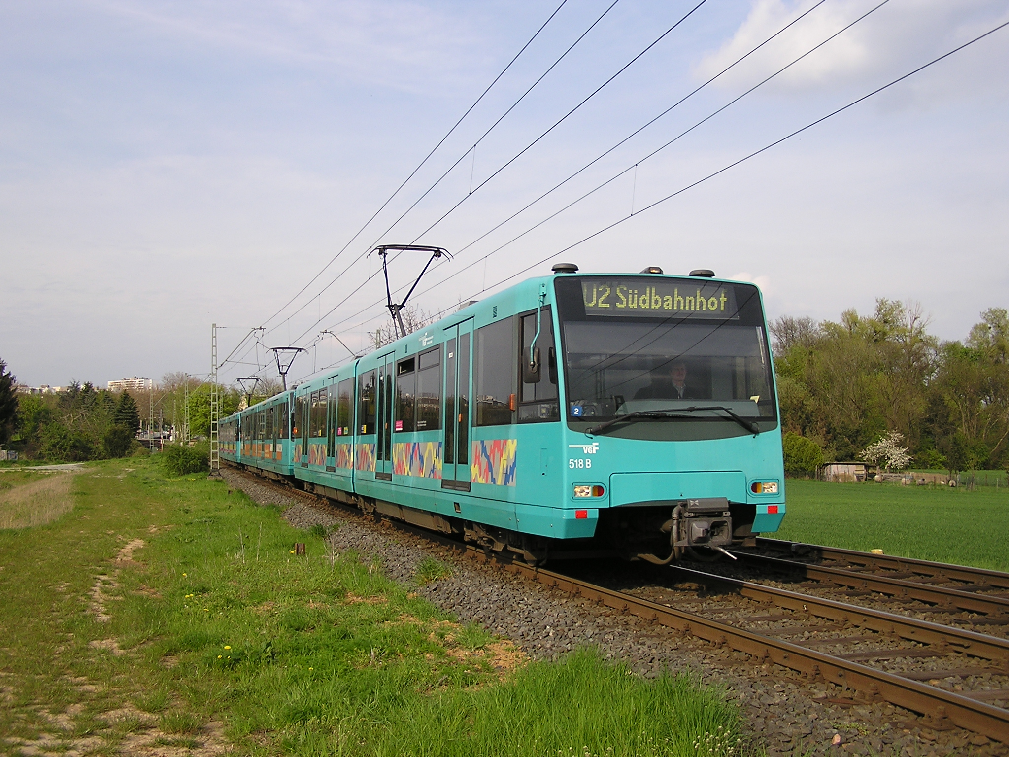 Three U4 cars have left Bonames and run as line U2 to Frankfurt South Station